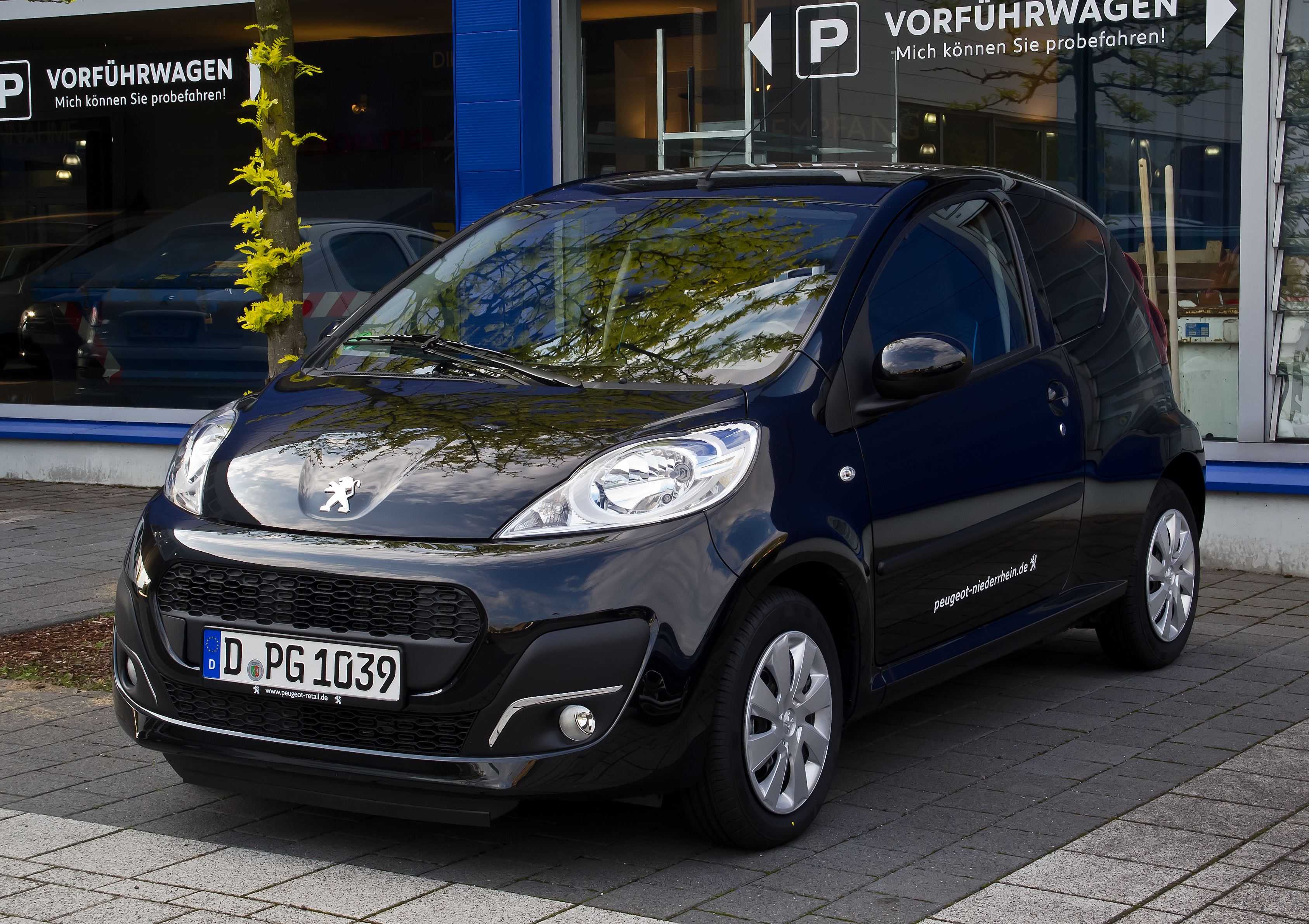 Peugeot 107 68 Active (2. Facelift)